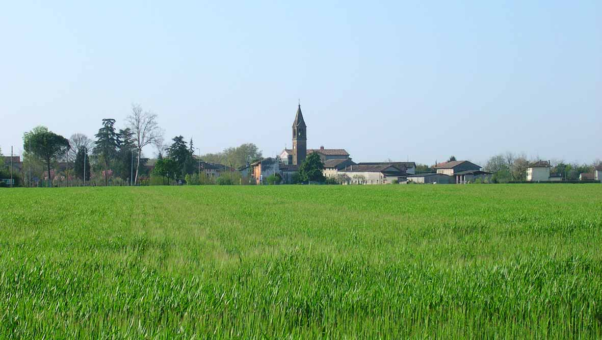 S.Stefano_Udinese